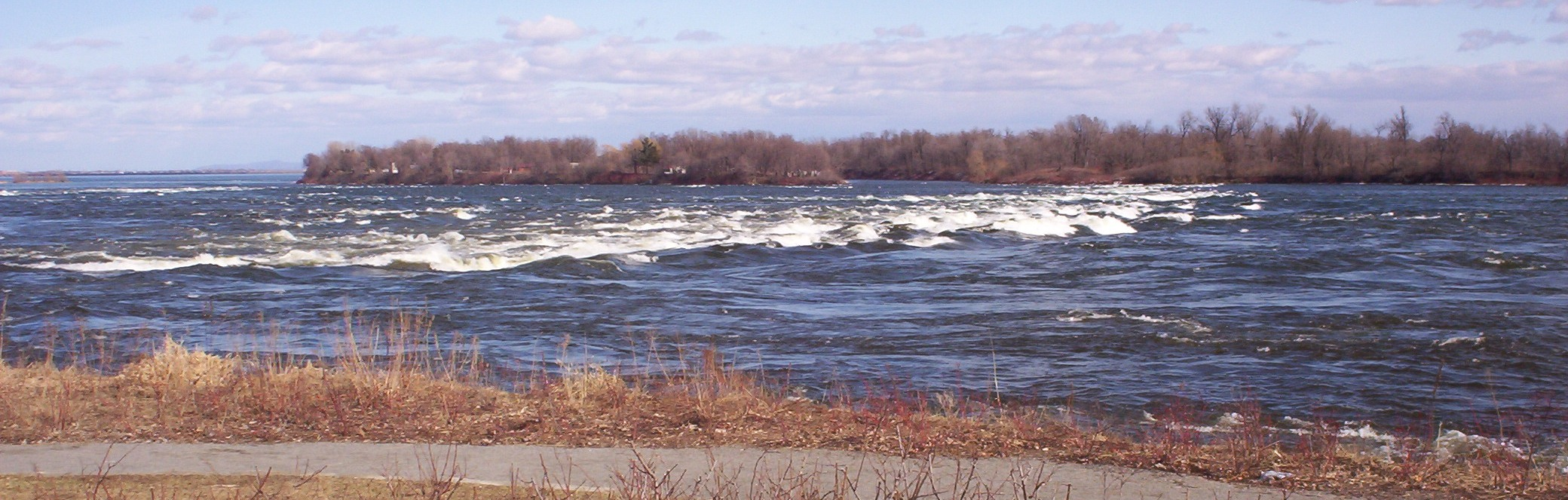 The Lachine rapids in Montréal, Québec